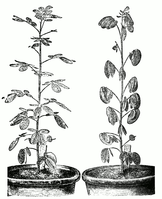 Cassia corymbosa synonym of Senna corymbosa (left) during the day (right) at night both figures copied from photographs